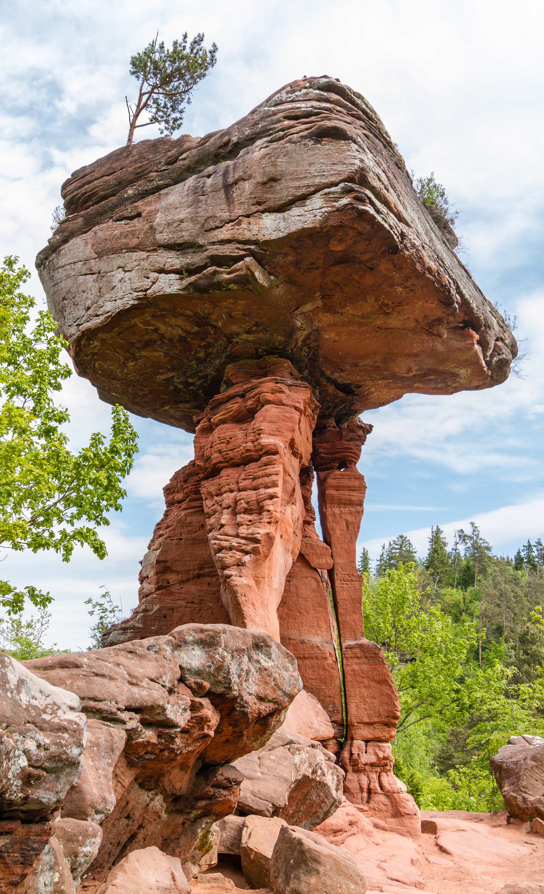 Natural monument number: ND-7340-241 Designation: Teufelstisch Place: Rhineland-Palatinate, administrative district Southwest Palatinate, Hauenstein, west of Hinterweidenthal Description: table formed red sandstone rock